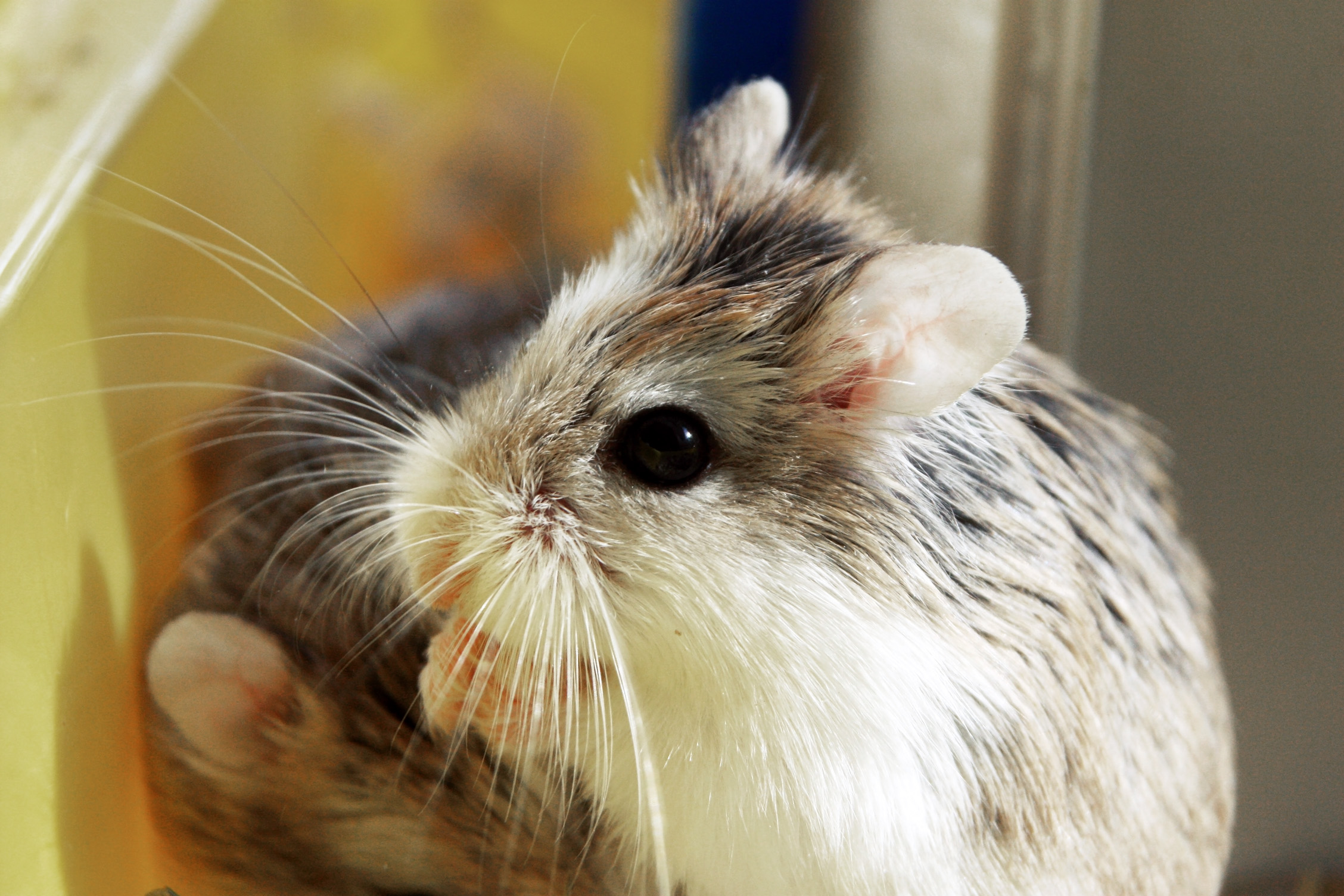 A Roborovski Hamster eating